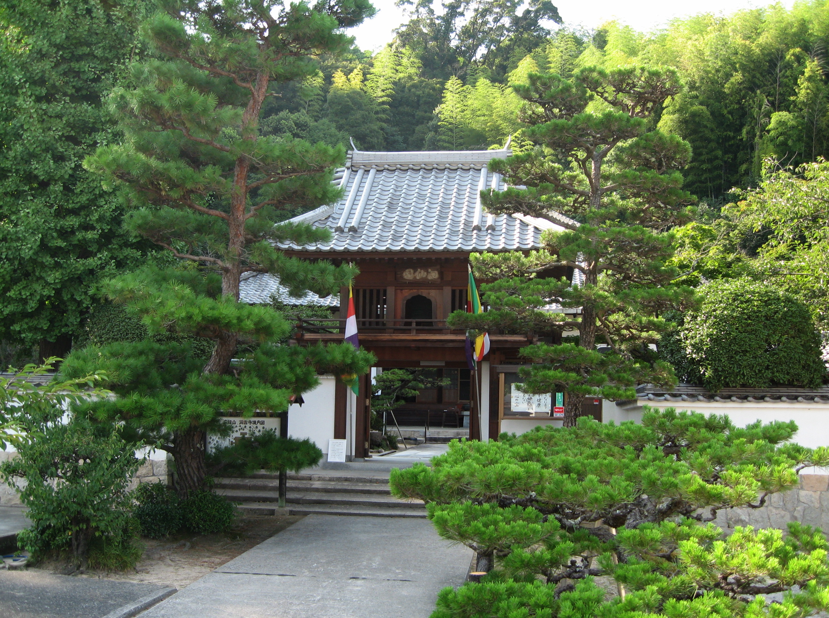 Tōun-ji sanmon,at Hatsukaichi Japan.